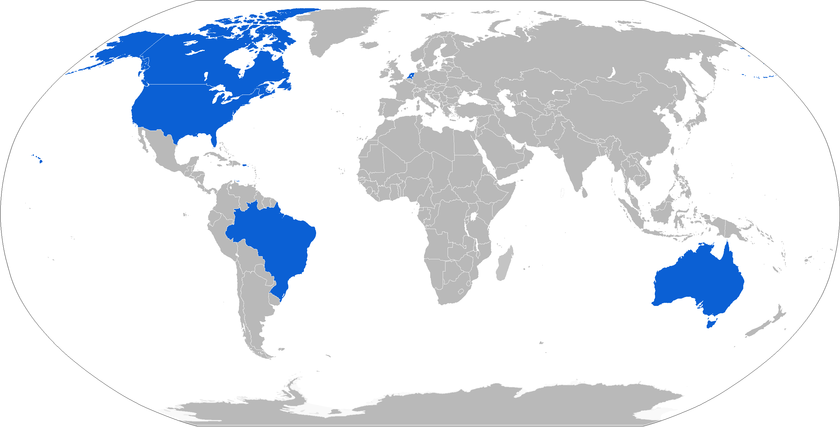 Map with Mark 48 operators in blue